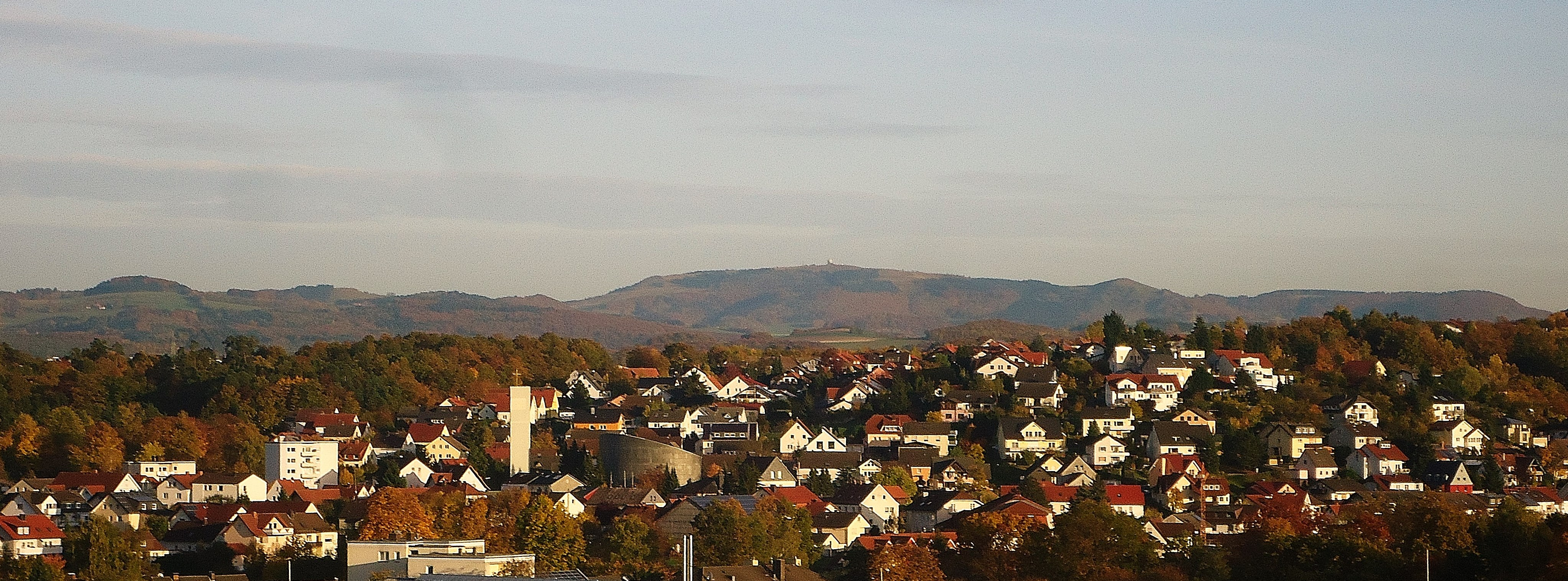 View on Künzell with Mount Wasserkuppe 950 m the highest in the Rhönmassiv on a golden Octoberday in 2013.